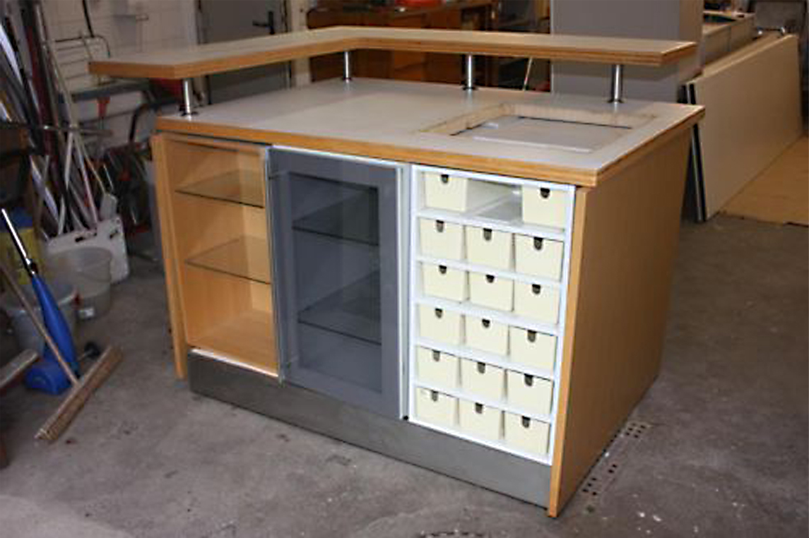 Bulthaup design kitchen